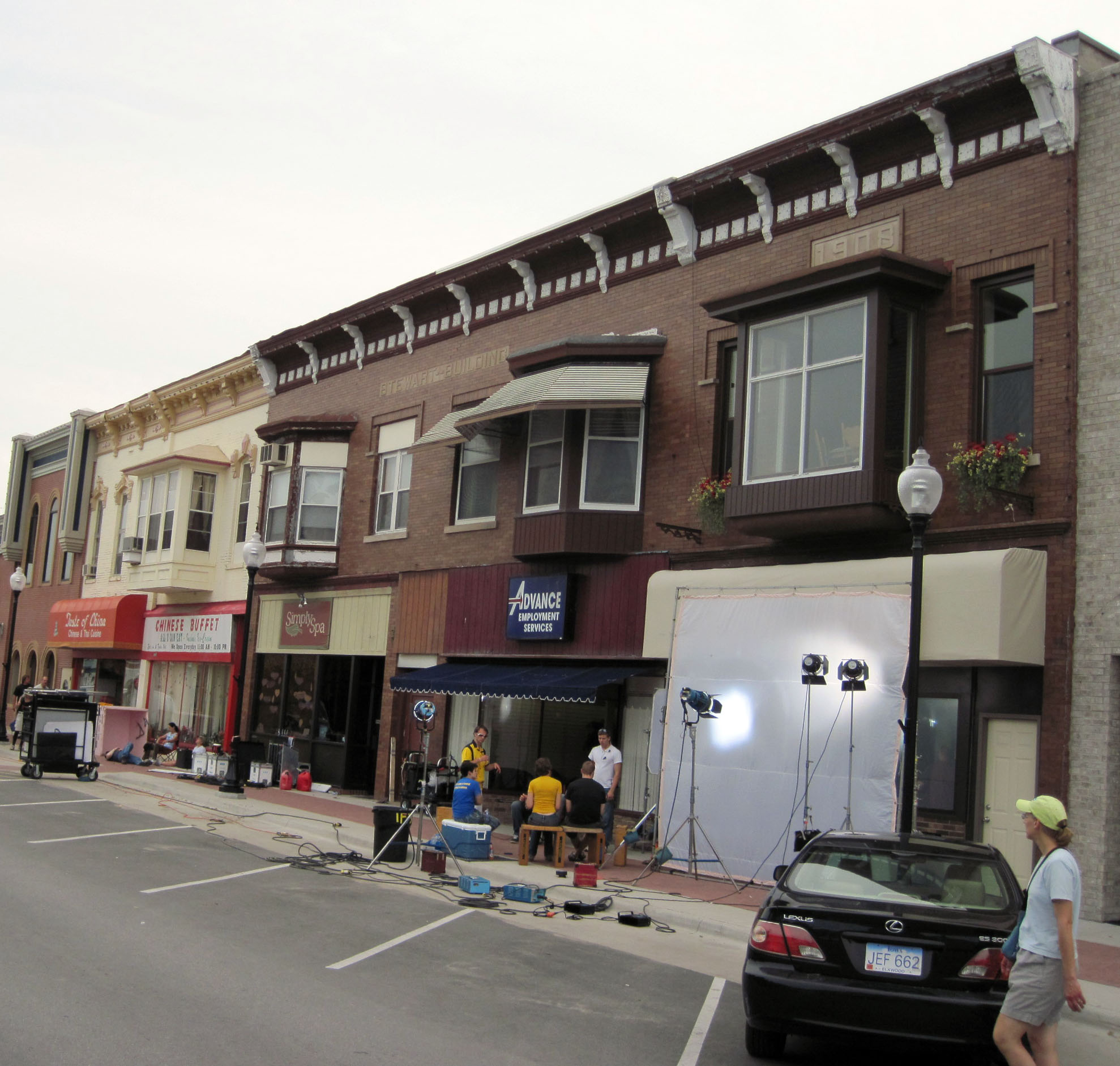 Set of the feature film, Splatter, Washington. Bill Whittaker (talk) 16:45, 22 June 2009 (UTC) Note that the Lexus in the foreground has an Iowa licence plate with the fictional county of "Elkwood". Bill Whittaker (talk) 17:07, 22 June 2009 (UTC)